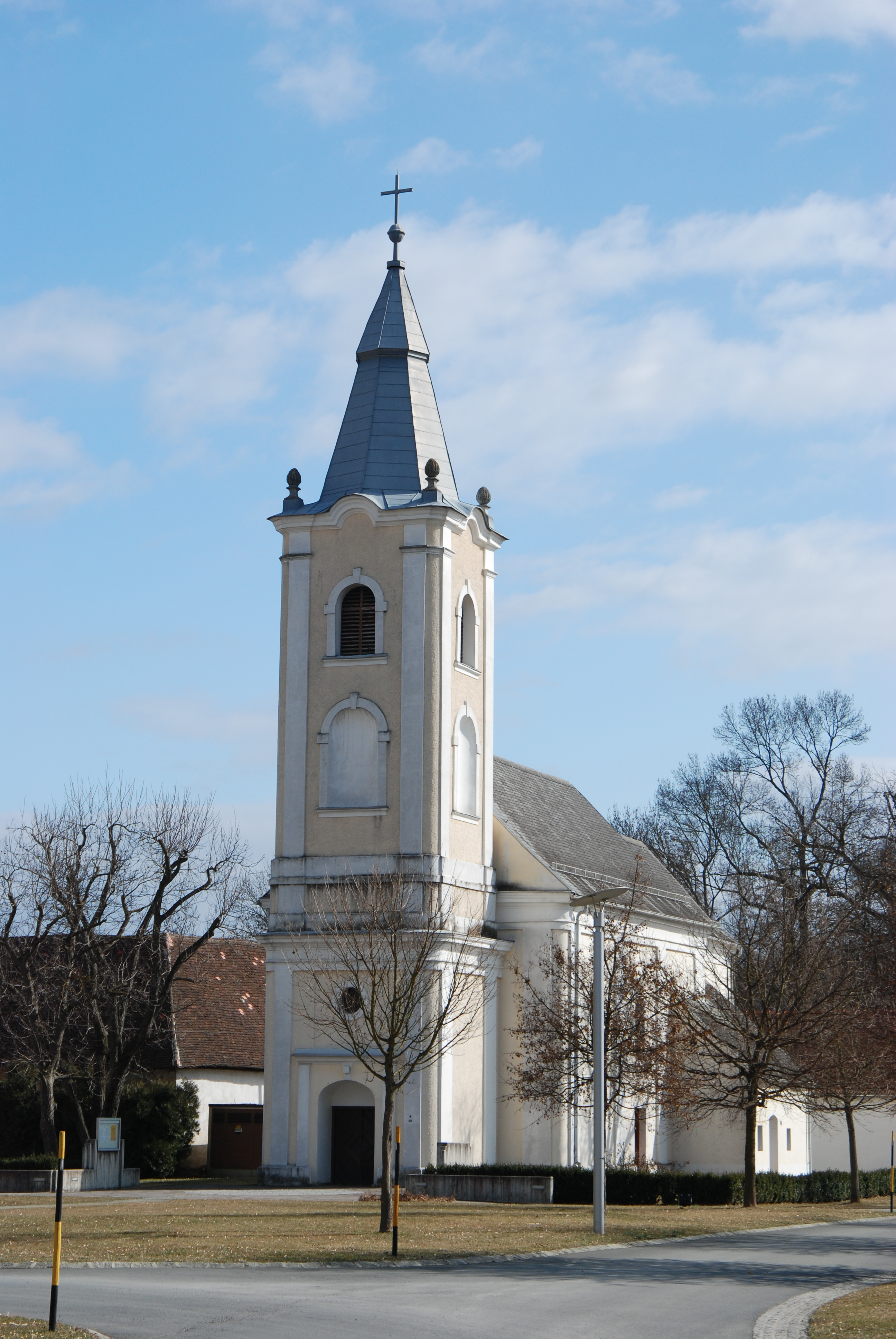 Pfarrkirche Eberau